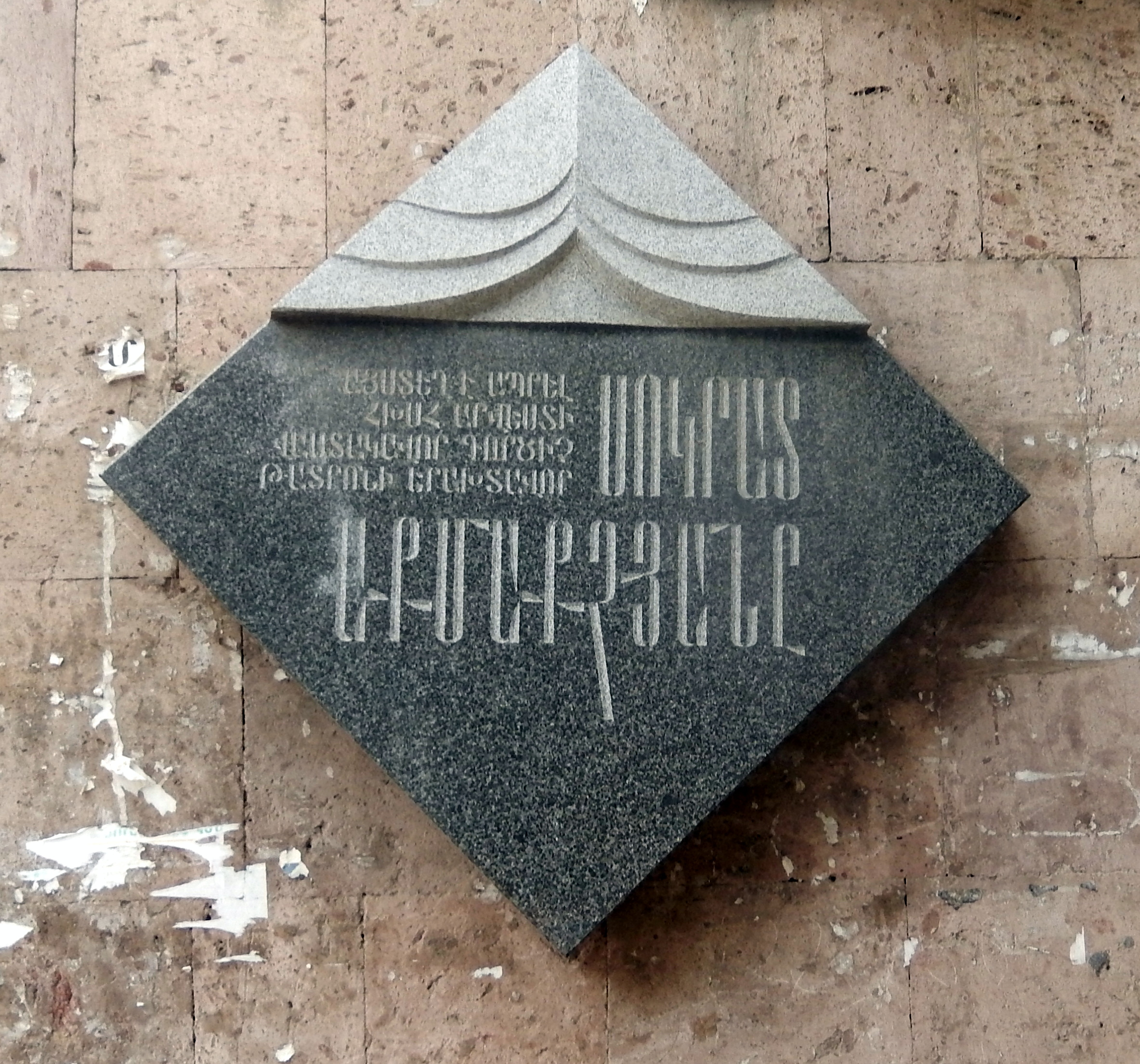 Plaque for Sokrat Akmakchyan 1/35